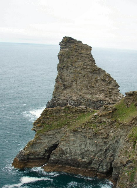 Long Island sea bird colonies All the sea stacks along the Cornish coast have large sea bird colonies readily identified by the white streaked rock!